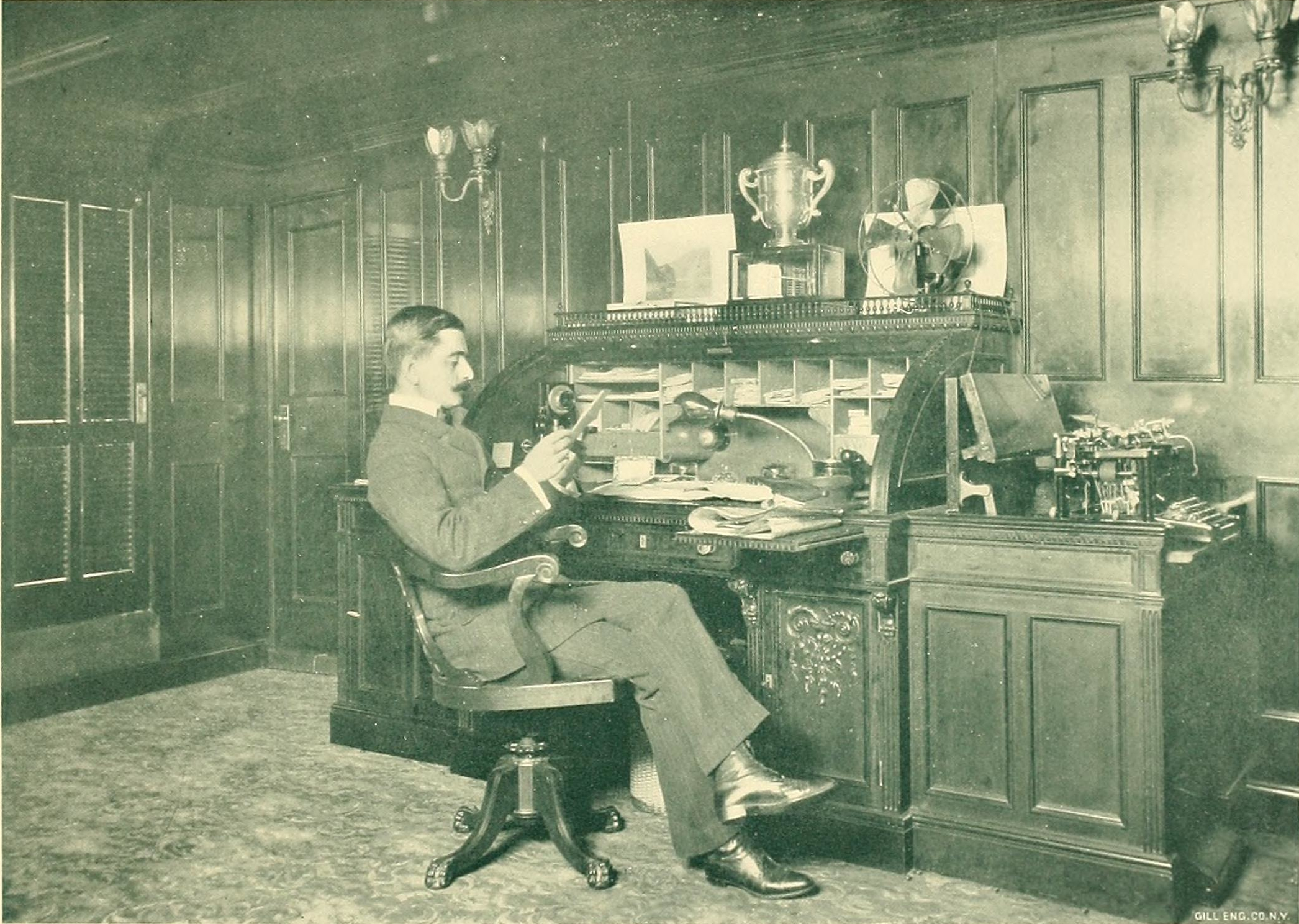 Owner's office on promenade deck. The trophy is the Lord Dunraven Castle Yacht Club Challenge Cup, or possibly the Maitland Kersey Cup, both won in 1895 by the Niagara (yacht, 1895)